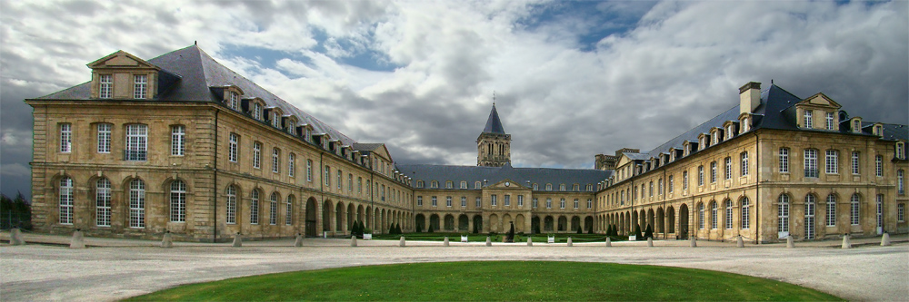 Abbaye-aux-Dames, Caen, Calvados, Normandie, France. The convent.